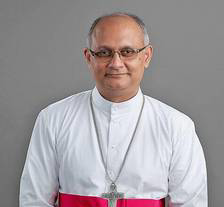 Portrait of Bishop Tony Neelankavil